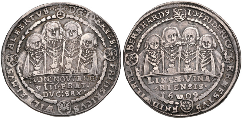 GERMANY, Sachsen-Ernestinische Linie (Sachsen-Weimar [Herzogtum]). Johann Ernst, with his seven brothers. 1605-1620. AR Reichstaler (40mm, 28.74 g, 3h). Saalfeld mint. Dated 1609. Draped busts of Johann Ernst, Friedrich, Wilhelm, and Albrecht facing, all wearing elaborate collars / Draped busts of Johann Friedrich, Ernst, Friedrich Wilhelm, and Bernhard facing, all wearing elaborate collars. Davenport 7523. VF, toned.